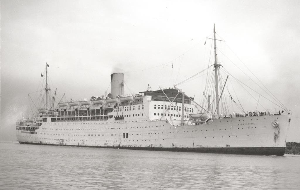 P&O Liner Strathaird at Fremantle Harbour